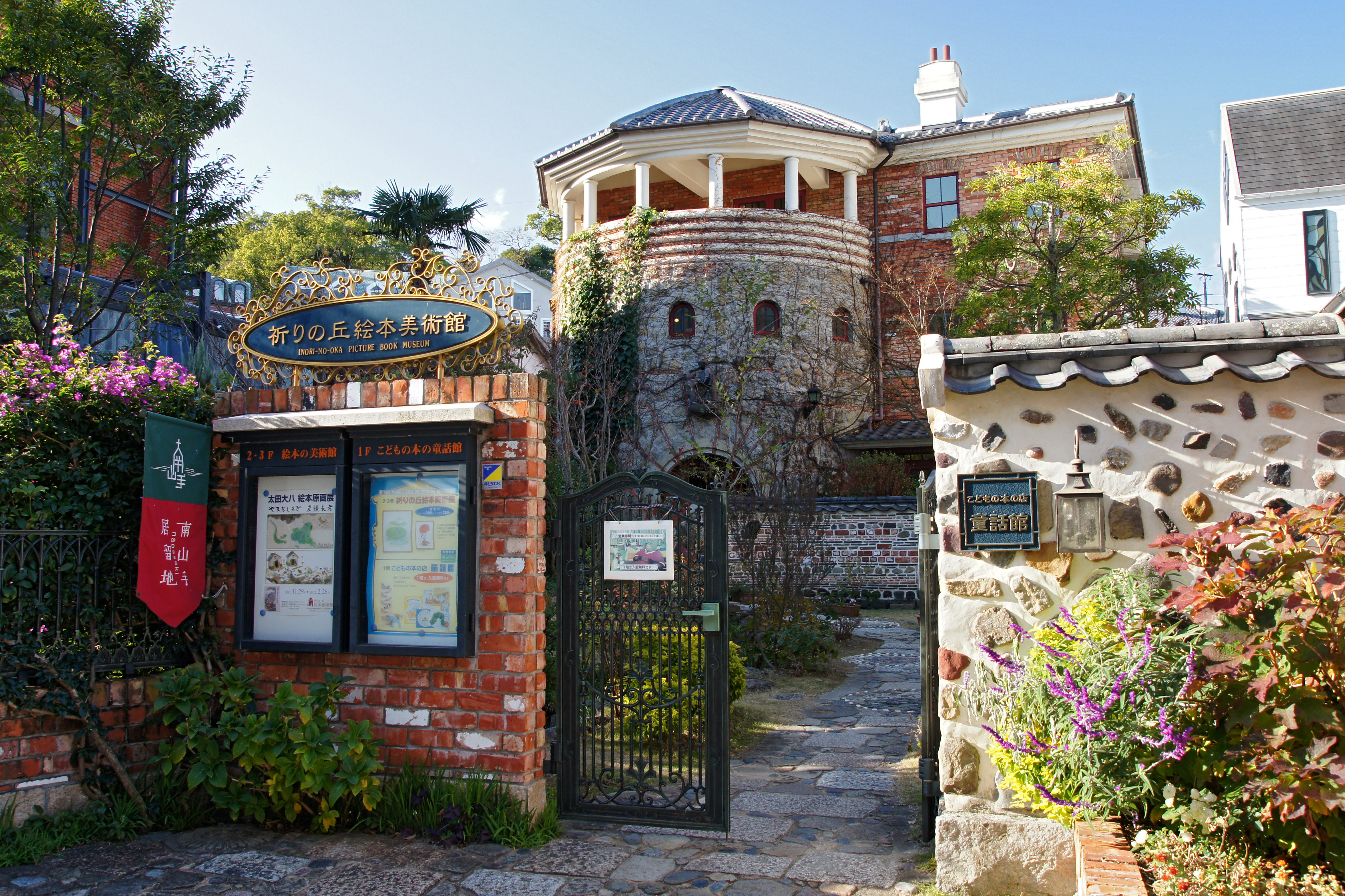 Inorino-oka Picture Book Museum in Nagasaki, Nagasaki prefecture, Japan